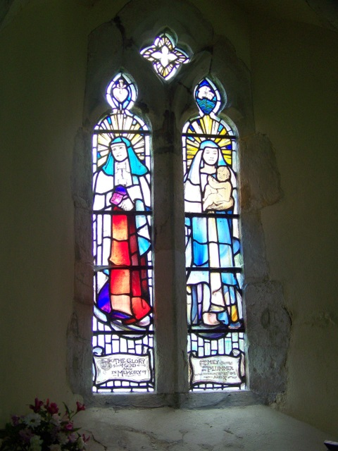 Stained glass window, St Leonard's Church, Hartley Mauditt The two light window dates from around 1320, the glass however, dates from the 19th century.